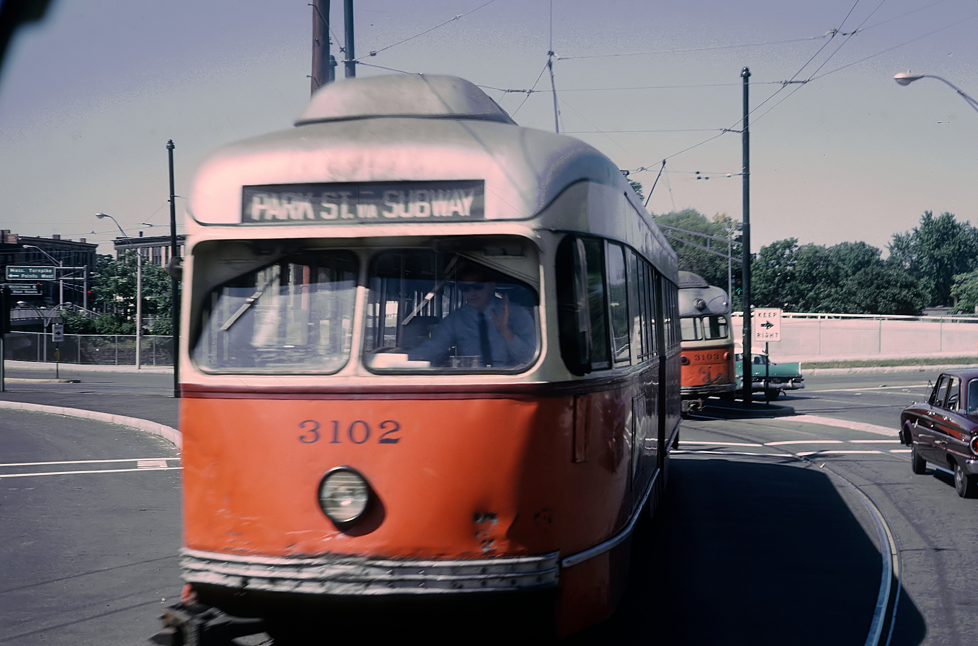 PCC streetcar #3102 rounds the corner from the Newton Corner rotary (Washington Avenue) to Park Street in September 1965, as #3103 passes outbound in the background